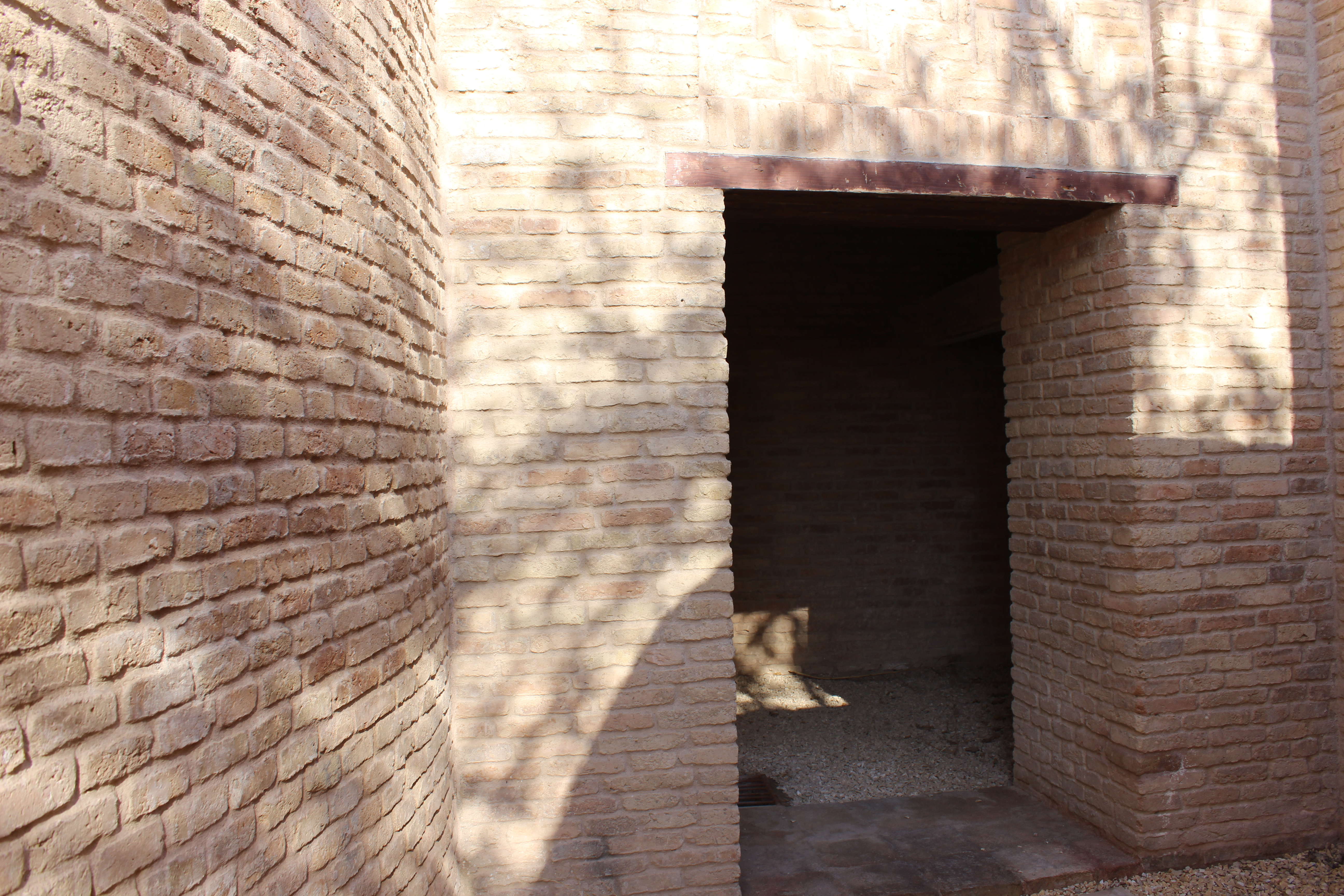 The Interior of one of the traditional houses in Erbil Citadel